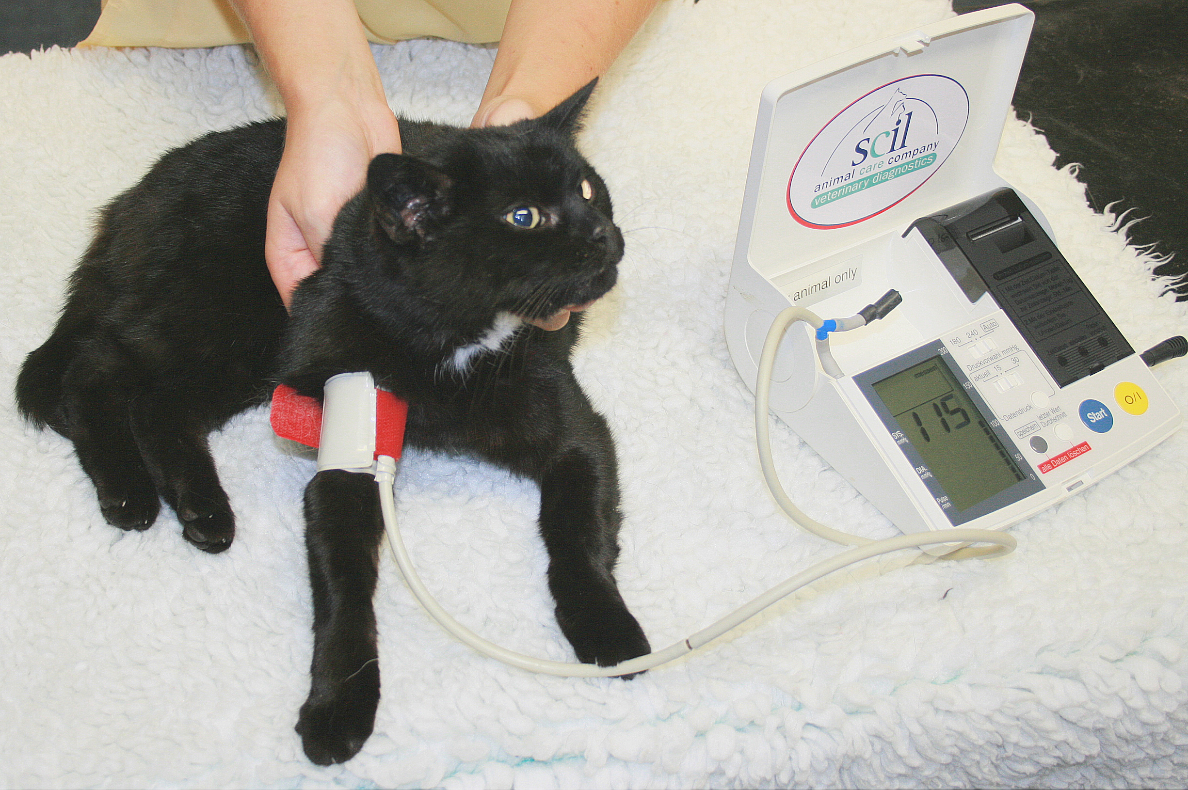 indirect blood pressure measurement in a cat, oscillometric.